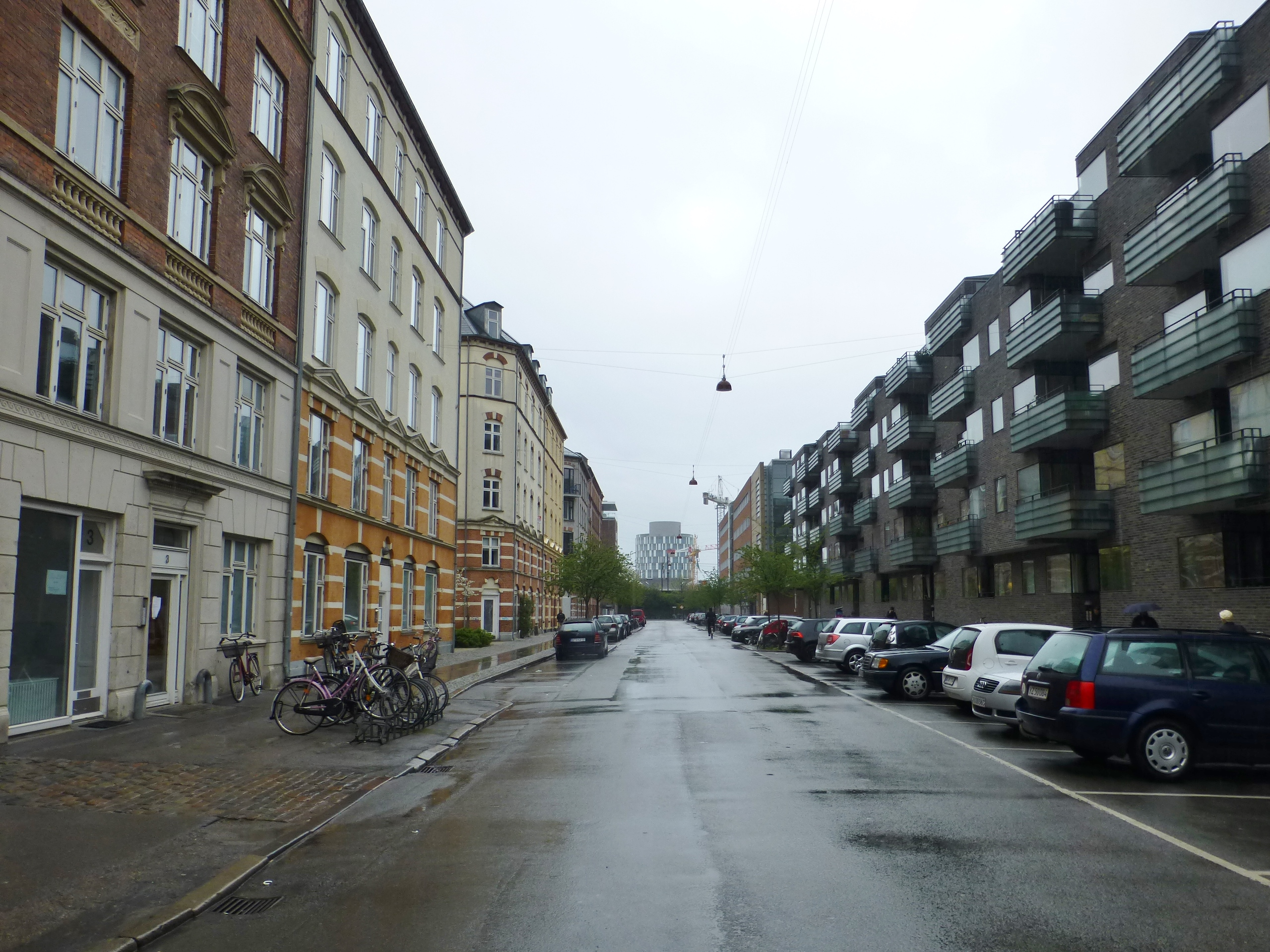 The street Hjørringgade in Østerbro in Copenhagen.